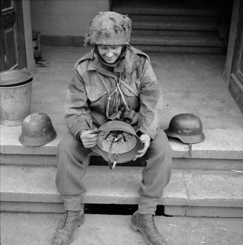 The British Army in North-west Europe 1944-45 RSM Allen of the 12th Devonshire Regiment examines captured German helmets in Hamminkeln, 25 March 1945.